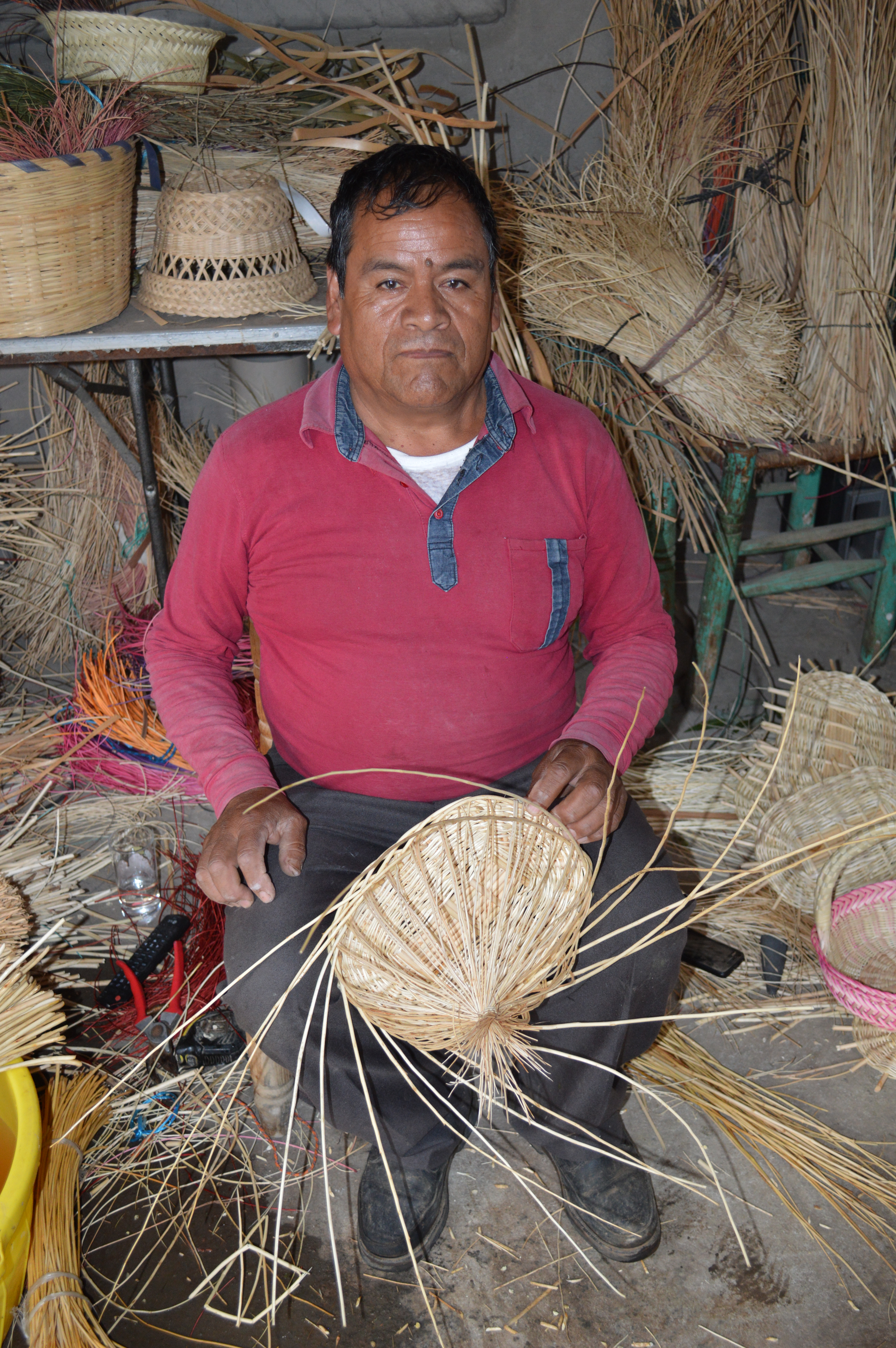 Apolinar Hernández Balcazar working on a basket at his workshop in San Martin Coapaxtongo, Tenancingo, State of Mexico